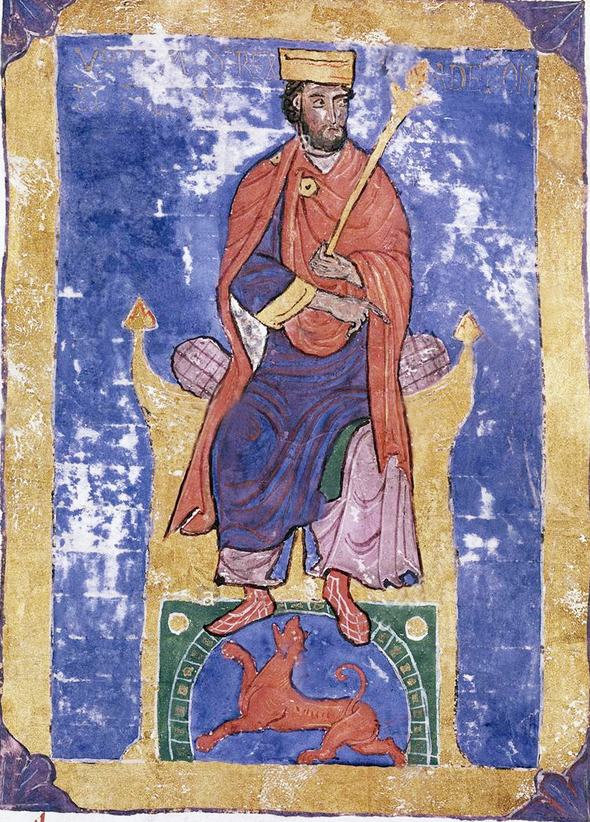 Bermudo III of León in Tumbo A, from the Cathedral of Santiago